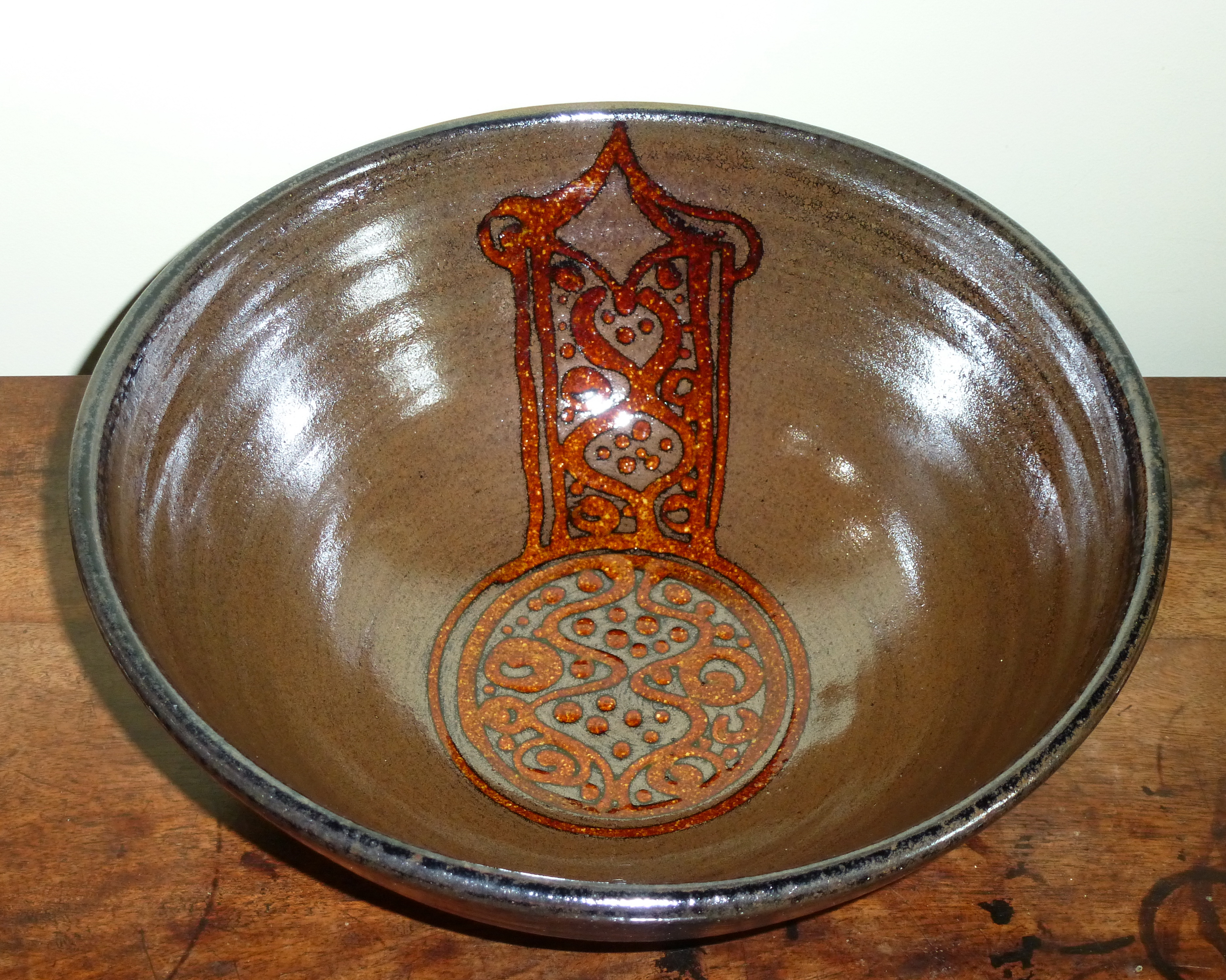 A large Coxwold Pottery bowl (Approx 14 inches/36 cms diameter) with typical 'fly ash' glaze, decorated with a 'Middle Eastern'- based theme.